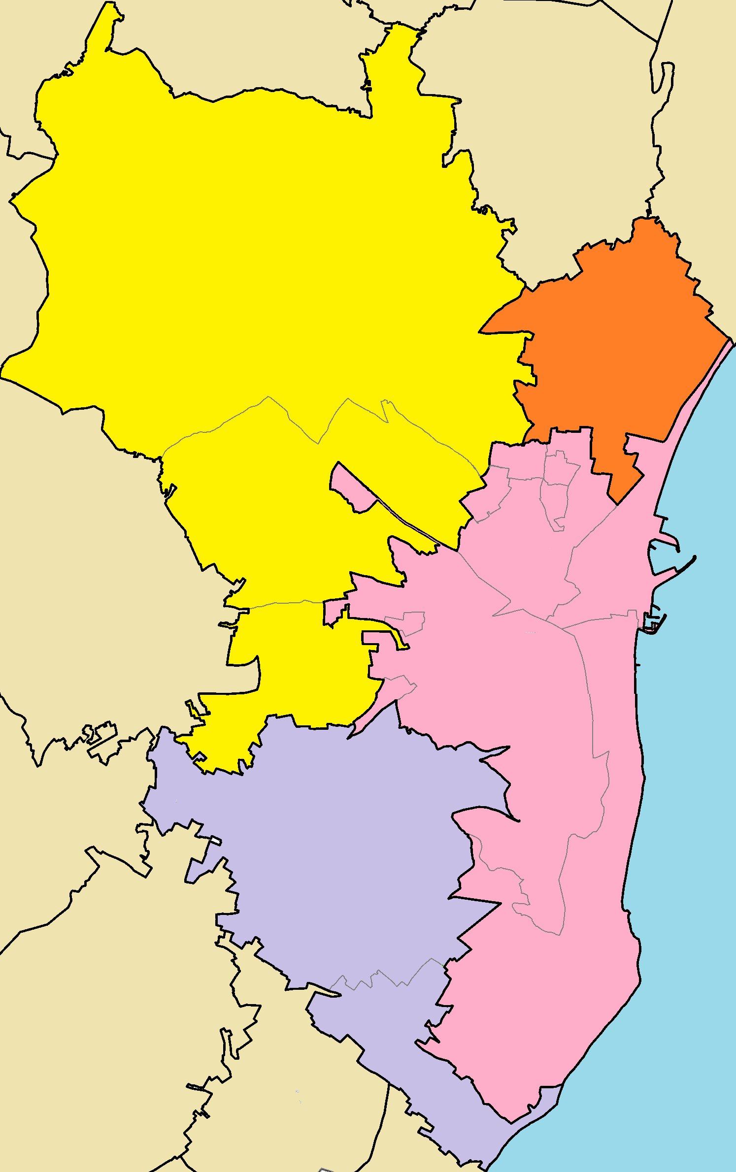 Larnaca District municipalities with their quarters.